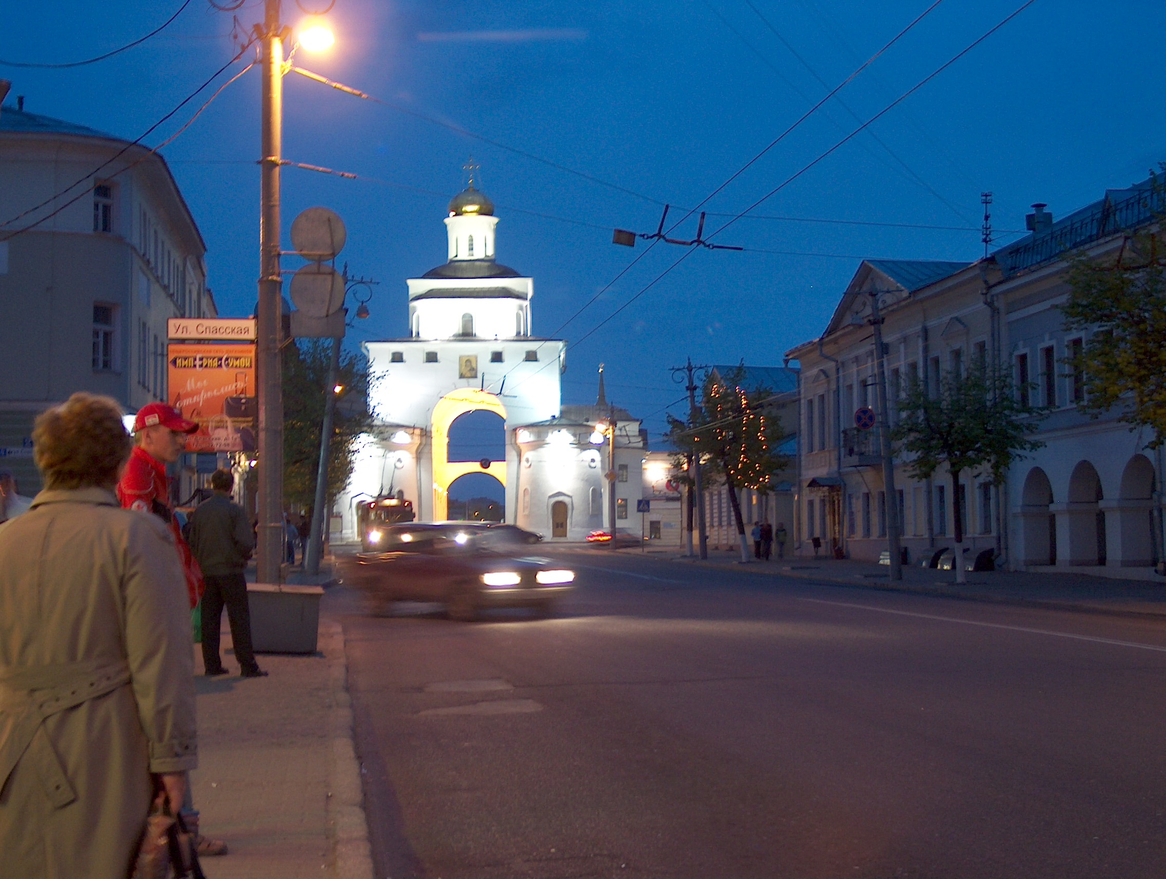 Golden Gate at night. Vladimir, Russia.